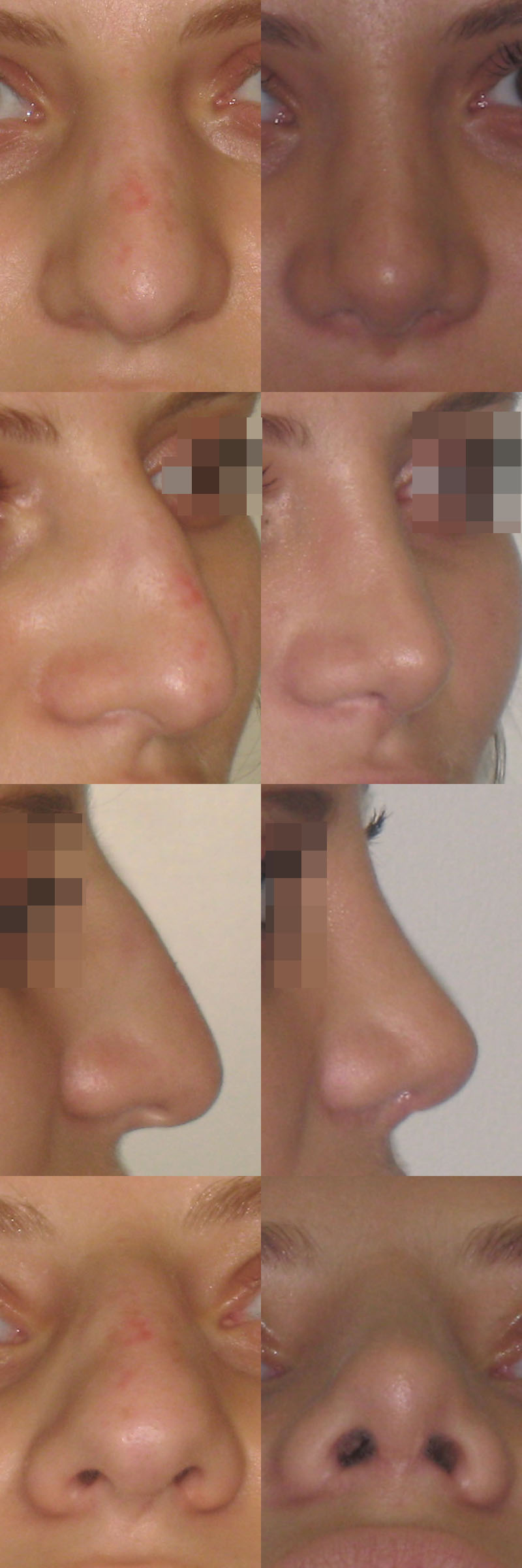 Full rhinoplasty. Cosmetic surgeon Morozov Sergey Viktorovich operated. St.-Petersburg.